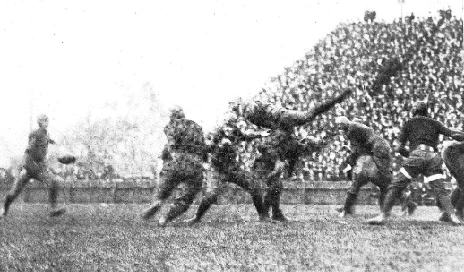 Photograph of Angus Goetz attempting to block punt by Hellstrom of the University of Illinois for the 1920 Michigan Wolverines football team. Caption: Goetz' ability to break through and block punts was uncanny.""